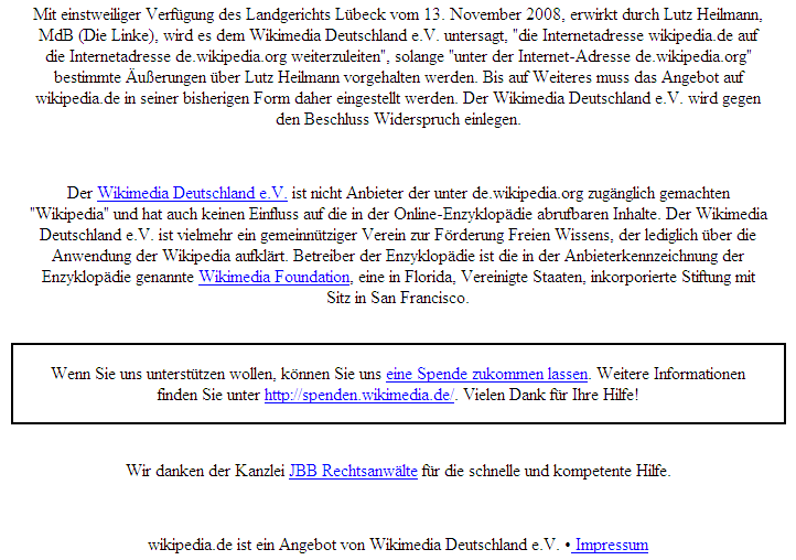 Screenshot from stating the link to has been removed. This is in relation to the article about Lutz Heilmann on the German Language Wikipedia